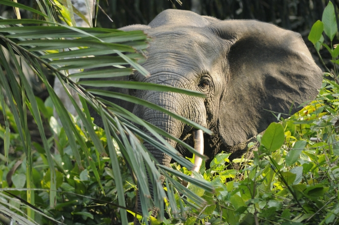 Forest elephant, Loxodonta africana cyclotis